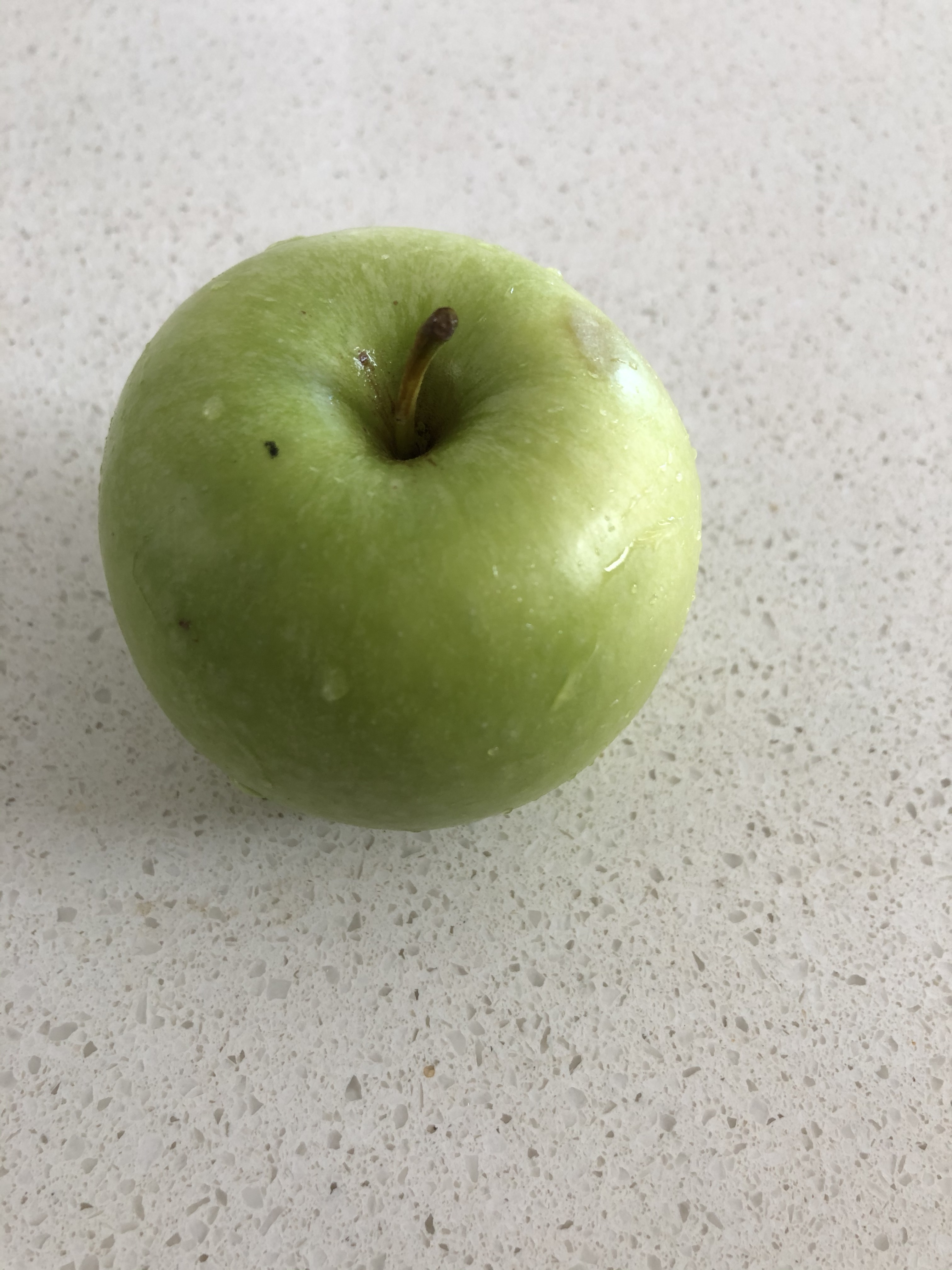 It is a picture of a washed green apple